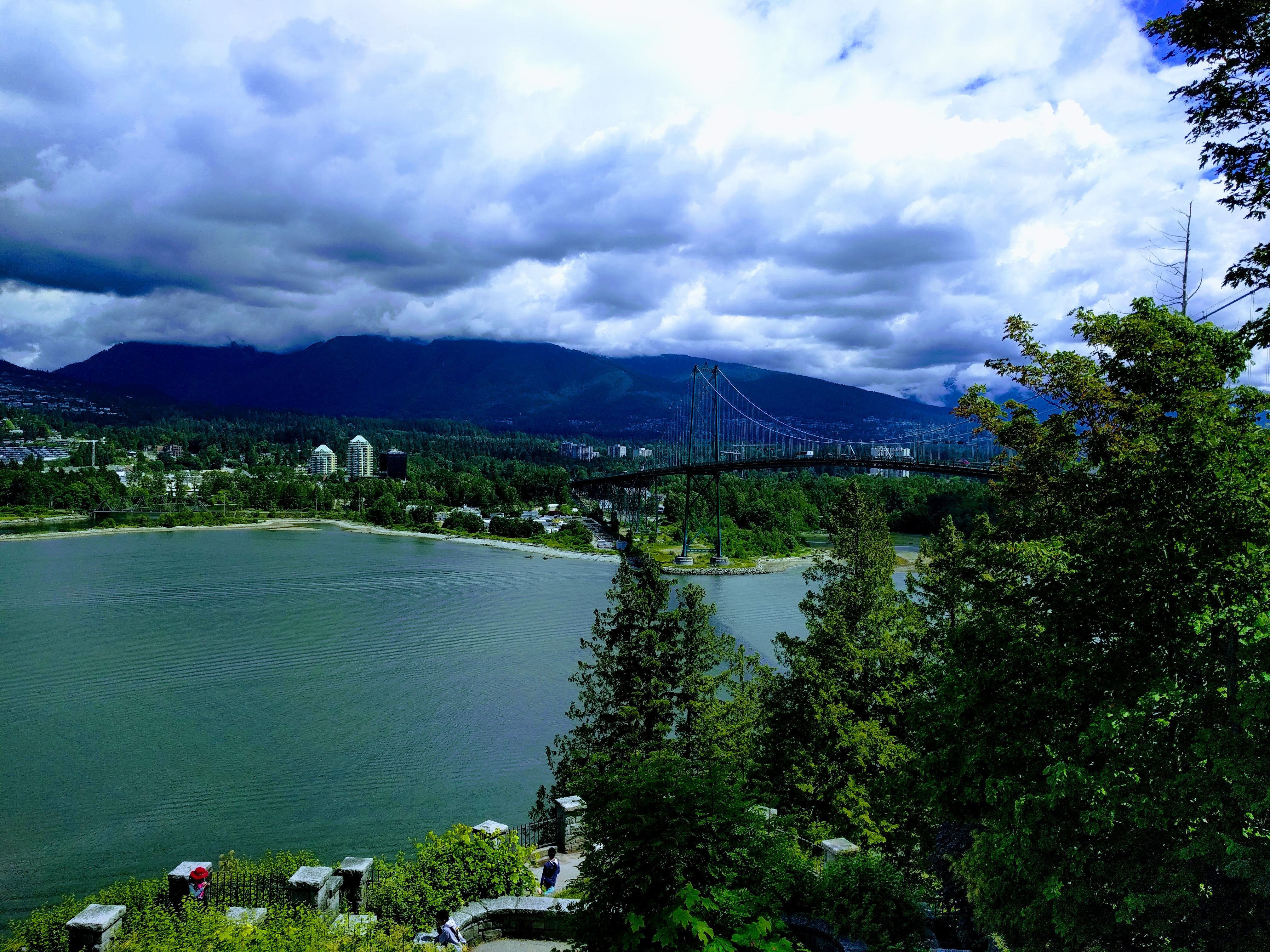 A view of the Lions Gate Bridge and Park Royal from Prospect Point in Stanley Park.